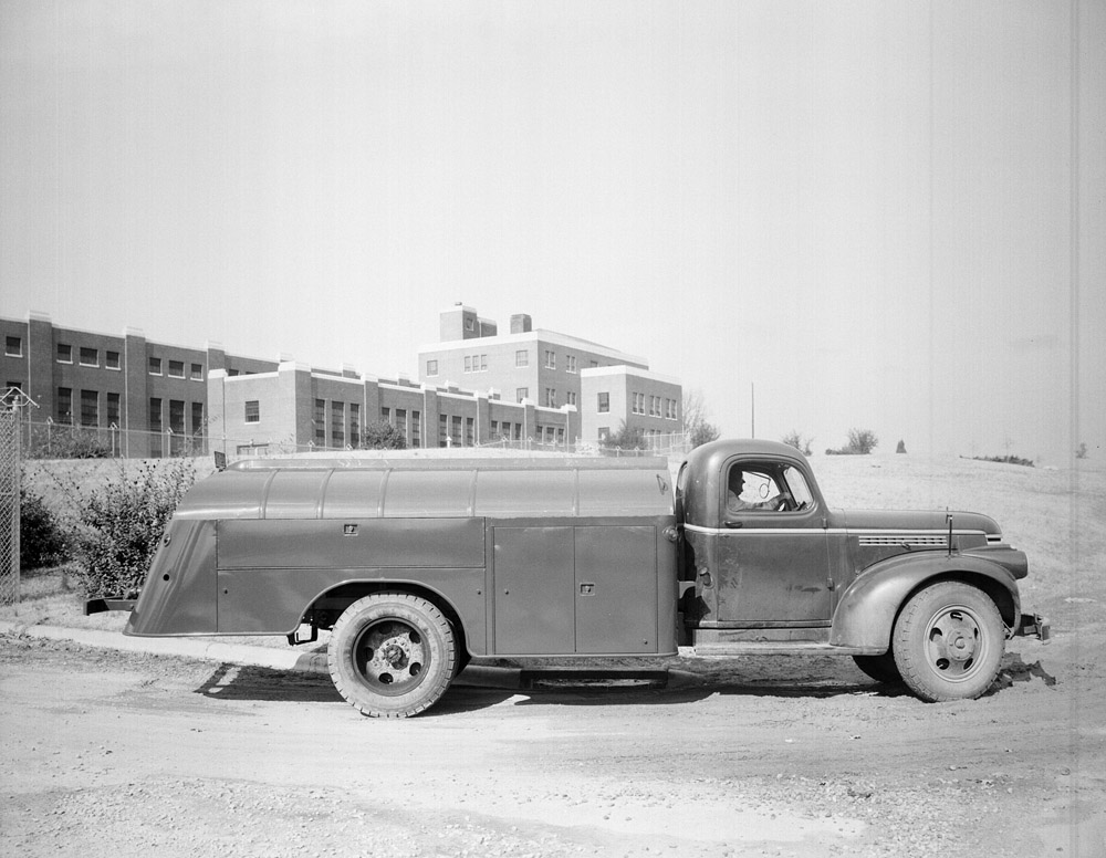 Back of Reynolds Coliseum, NC State University campus, Raleigh, NC. From the Barden Collection, State Archives of North Carolina, Raleigh, NC.